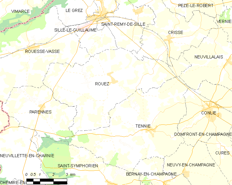 Map of French municipality